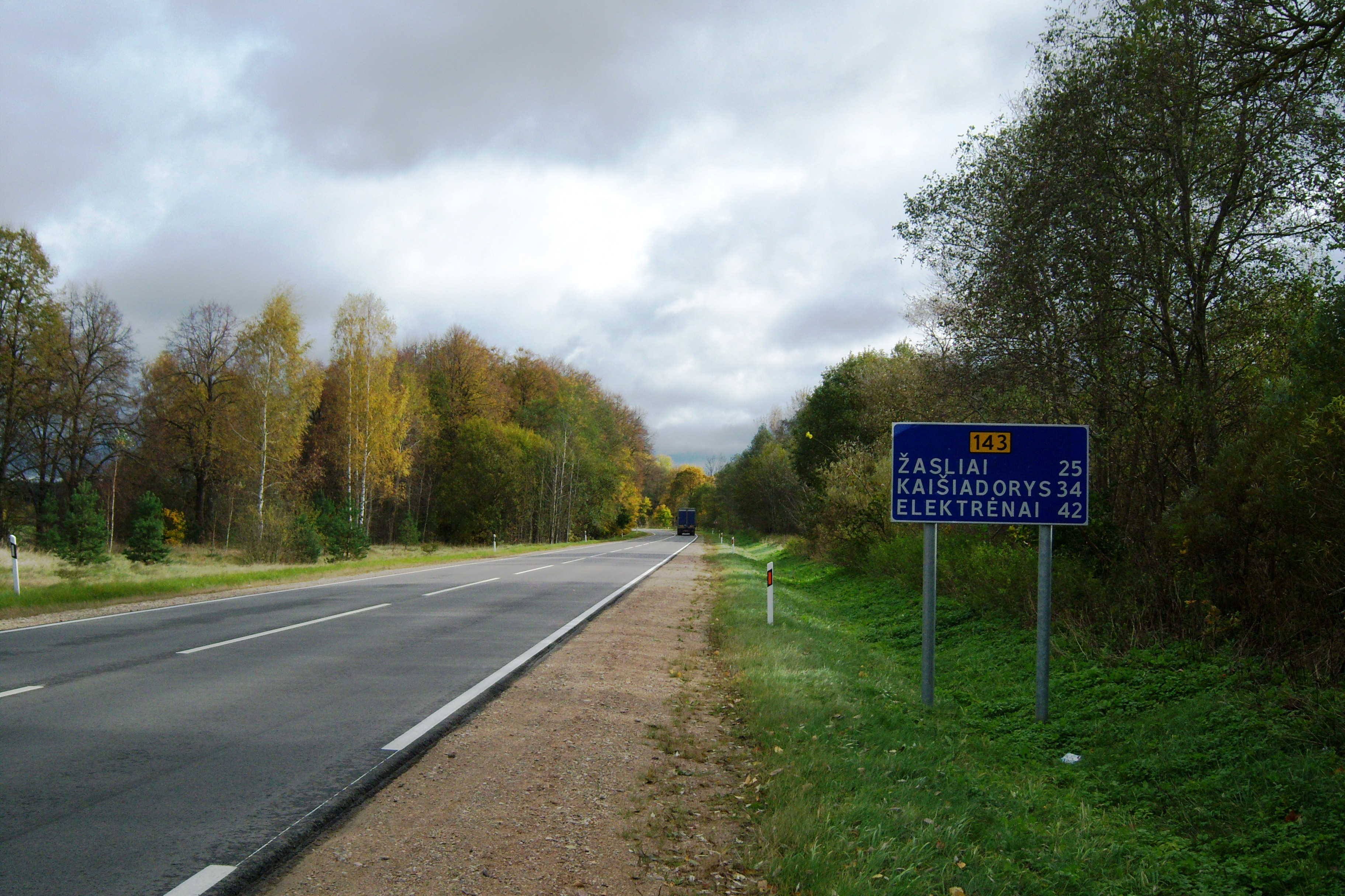 Road No.143 Jonava-Elektrėnai, between Rukla and Gegužinė, Lithuania